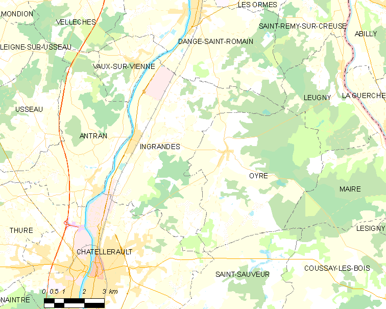 Map of French municipality Ingrandes